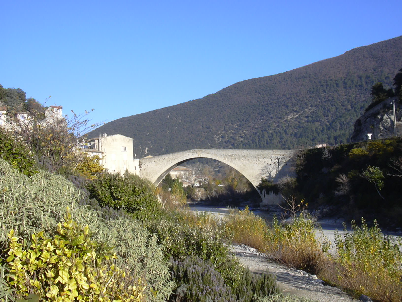 Nyons Bridge in southern France. Completed in 1407, span of 40.53 m.